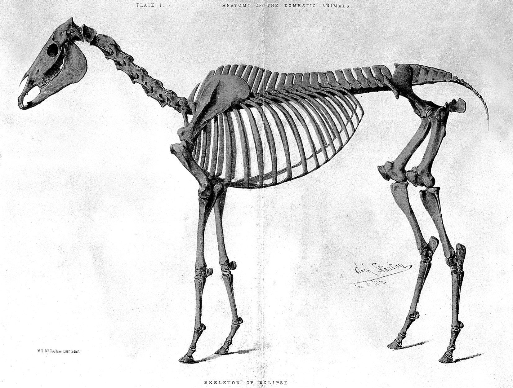 Skeleton of Eclipse (a horse). General Collections Keywords: Anatomy, Veterinary; Veterinary Medicine; Skeleton